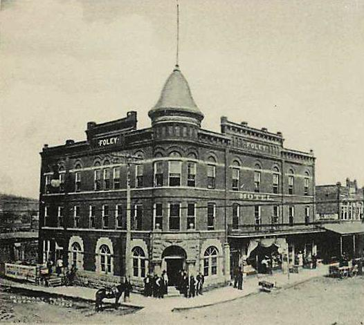 The Foley Building in Eufaula, Oklahoma, in 1907. The fighting during the McIntosh County Seat War occurred inside and in front of the building on June 7, 1908.